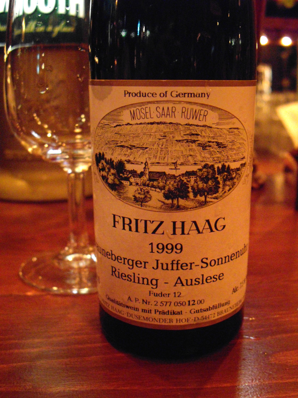 German Auslese Riesling wine from the Mosel